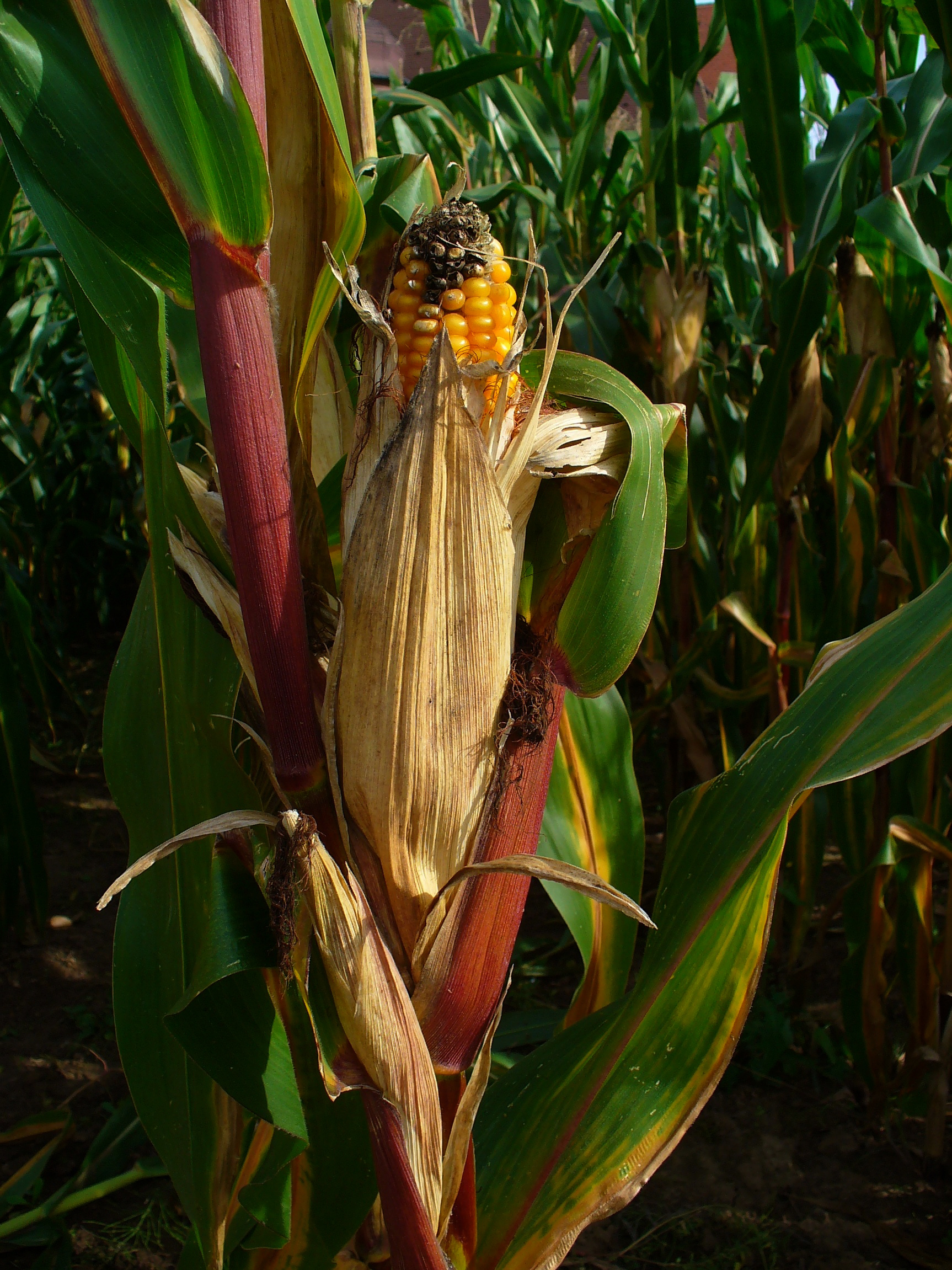 Zea mays, Poaceae, Maize, infrutescence. Karlsruhe, Germany.